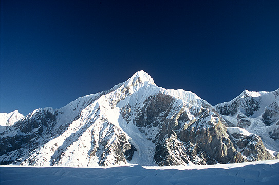 A scan from a 35mm transparency which I took on the South Inylchek Glacier in the Tien Shan mountains in Kyrgyzstan in July 2002. The mountain is Pik Gorkogo (Gorkiy Peak) (6050 m) on the north side of the glacier, opposite the Inylchek base camp. This scan is in the Public Domain (however, I retain ownership and copyright of the original transparency and any higher-resolution scans derived from it). If this image is used outside Wikipedia a photographer's credit (Simon Garbutt) would be much appreciated! SiGarb 00:08, 21 November 2005 (UTC)